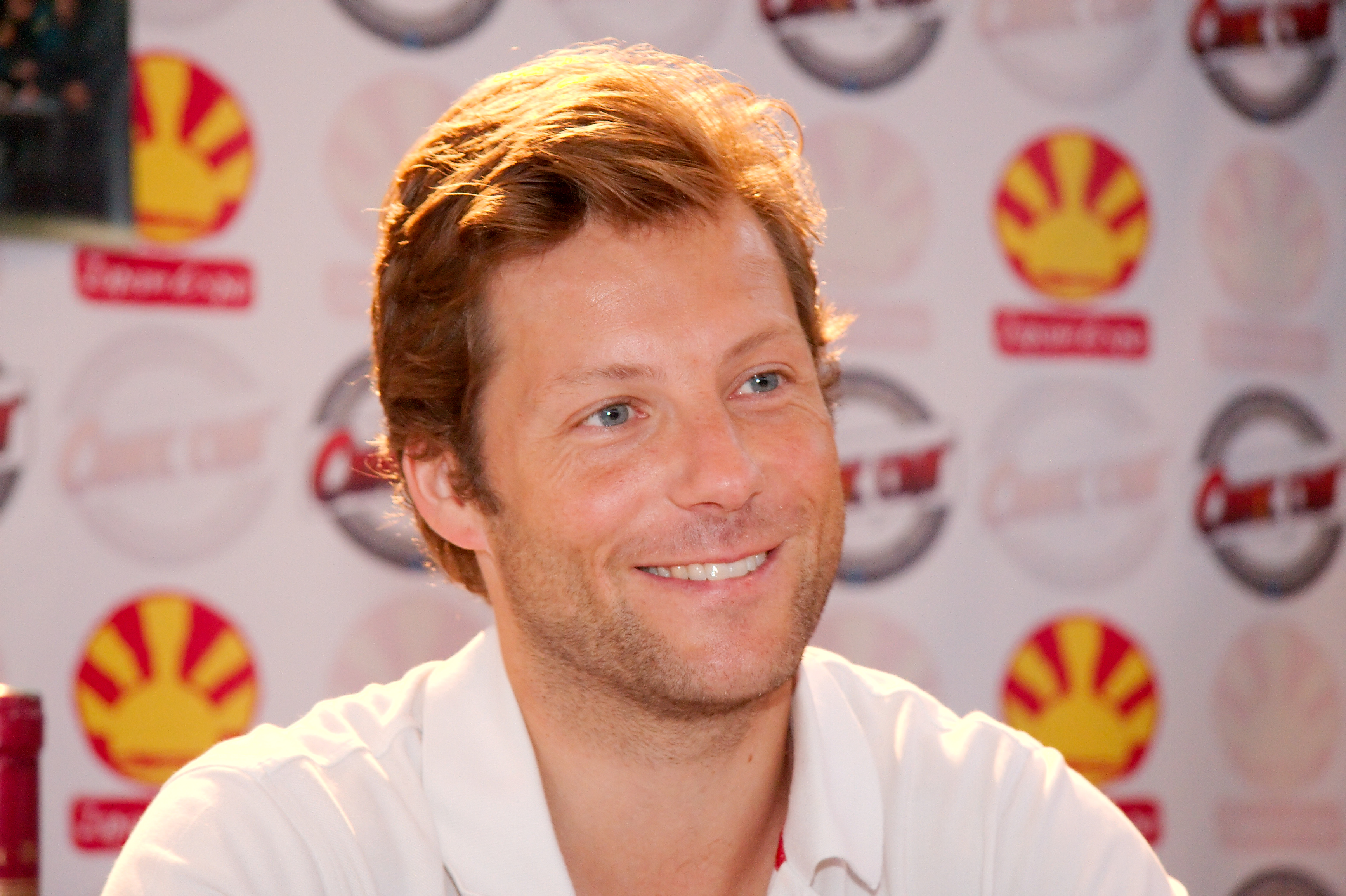 Autograph session with Jamie Bamber at Japan Expo 2009 (Paris, France).